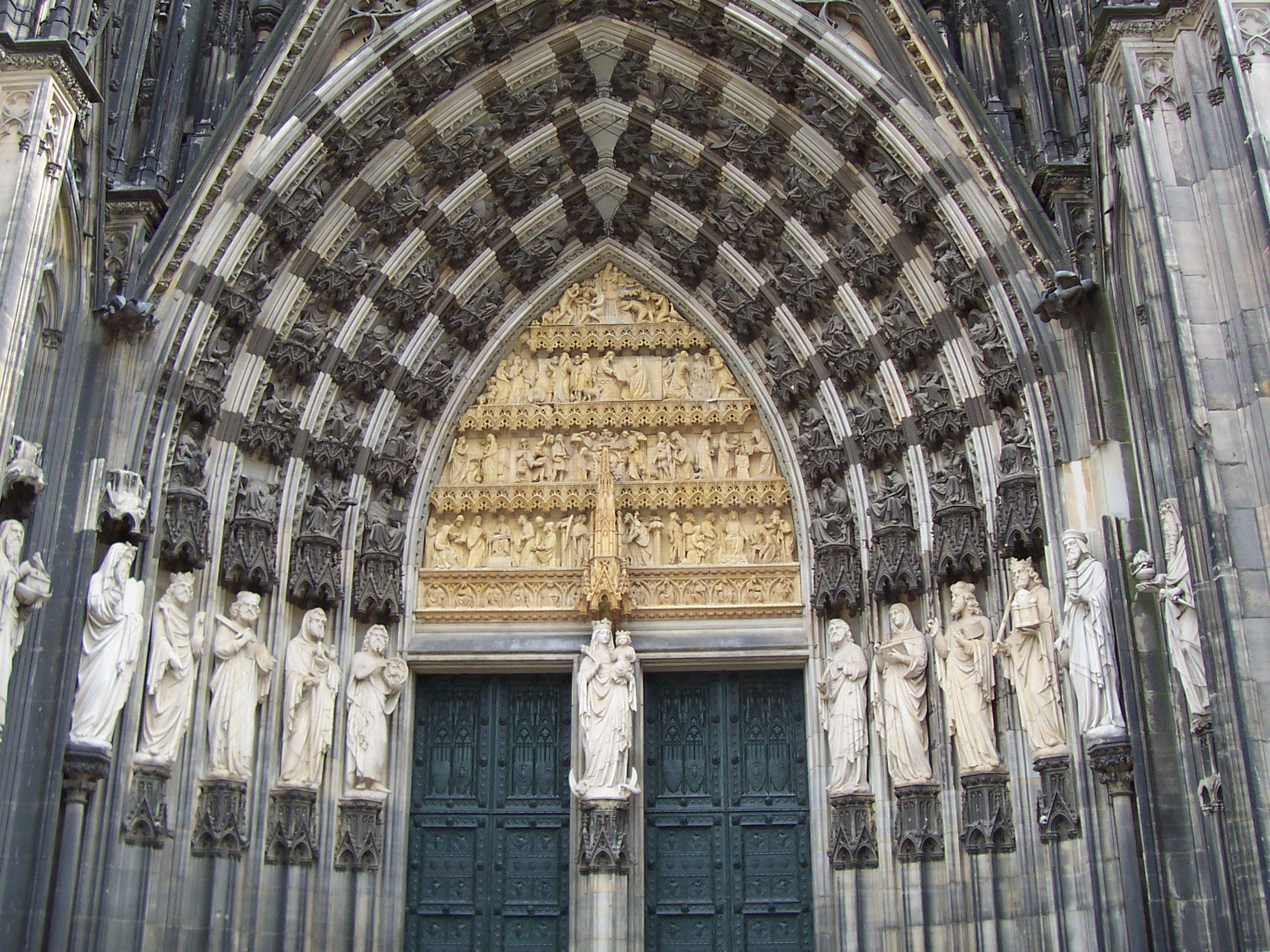 The main entrance of the Cologne Cathedral.